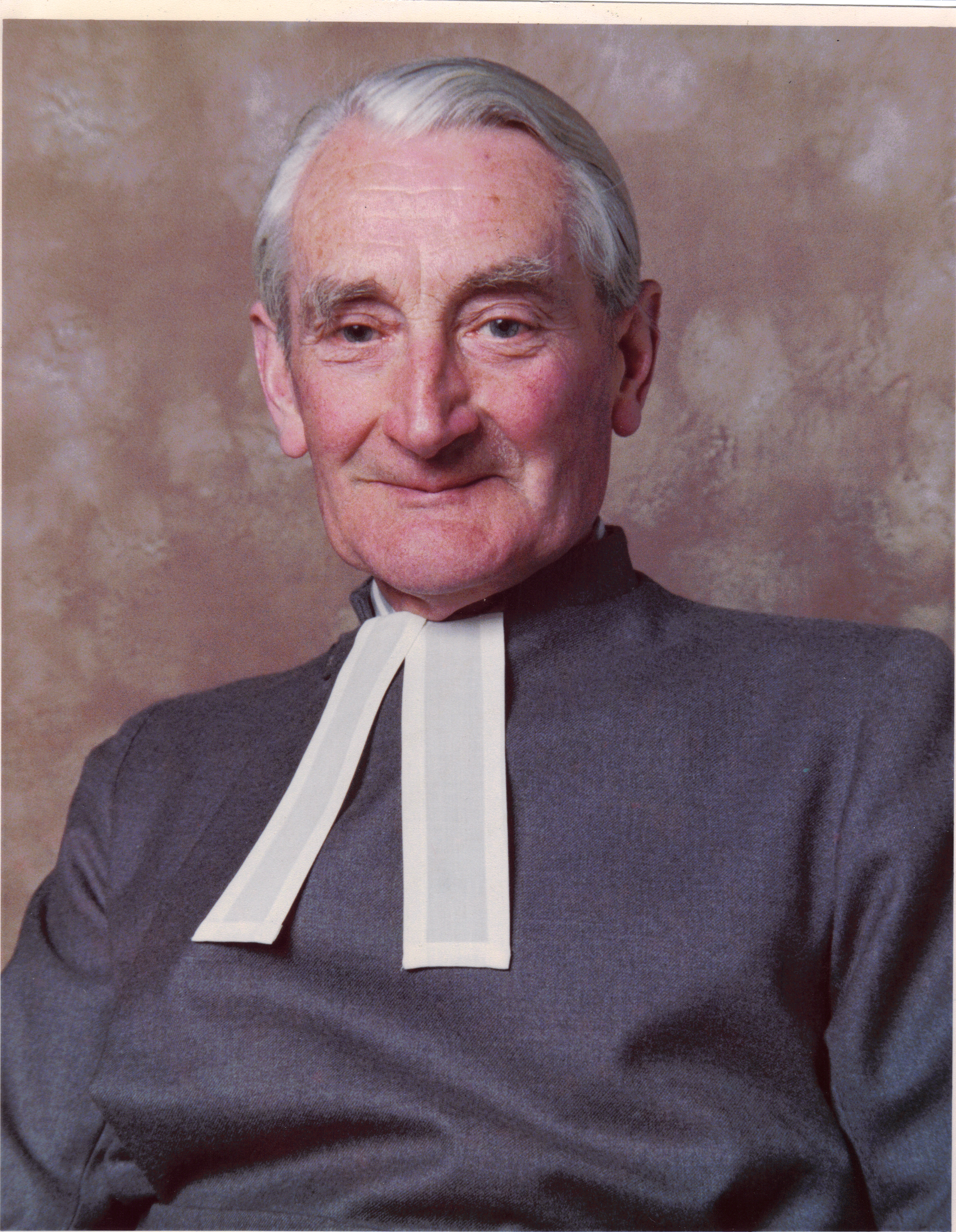 Family photograph, taken in 1990's